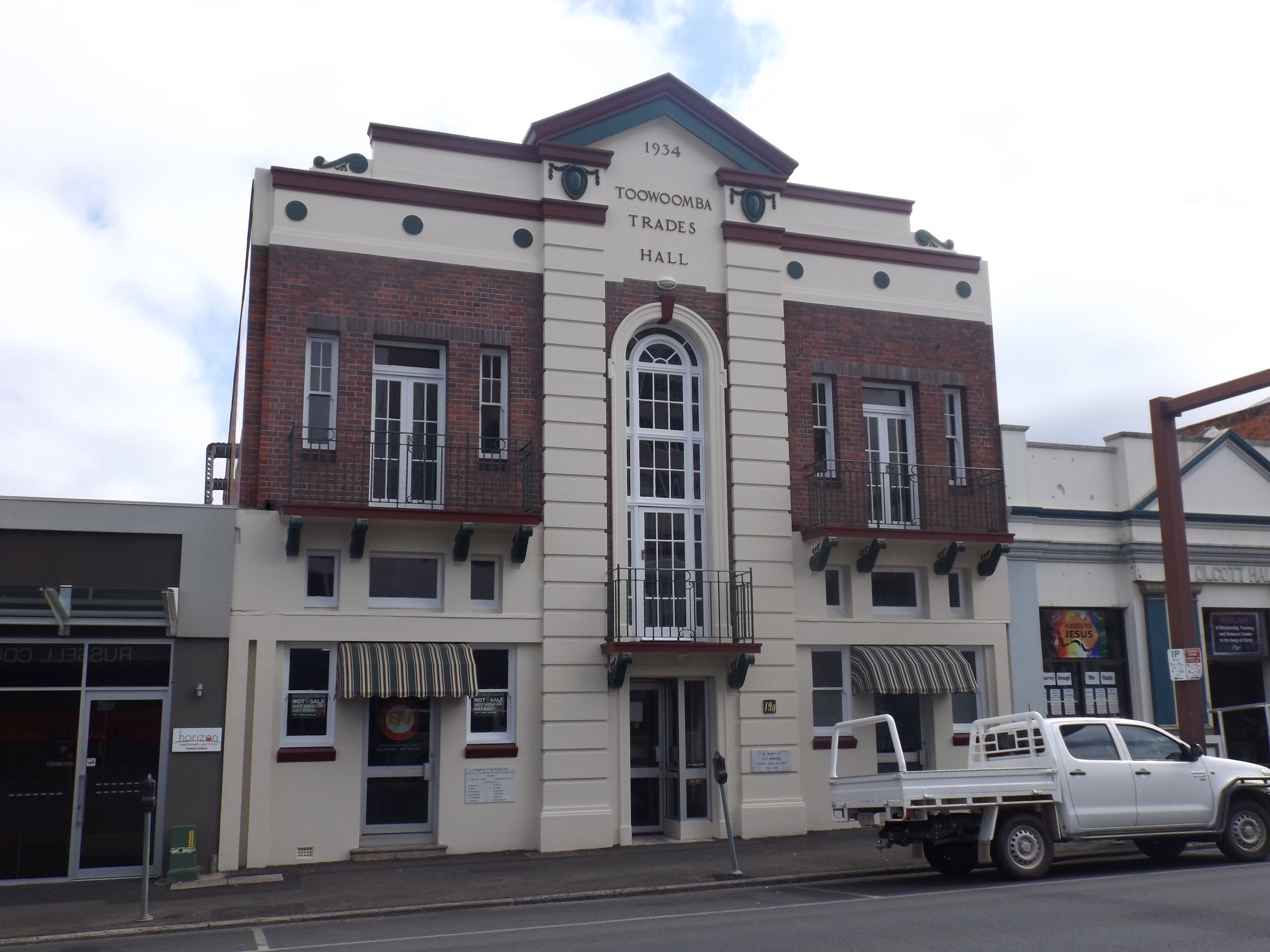 Photo of the Toowoomba Trades Hall in Toowoomba City, Queensland, Australia.